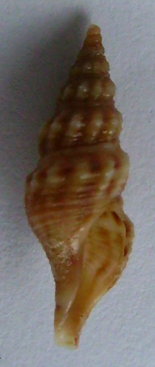 Antimelatoma buchanani maorum dredged from north of Pakiri, New Zealand. This work has been released into the public domain by its author, Graham Bould. This applies worldwide.In some countries this may not be legally possible; if so:Graham Bould grants anyone the right to use this work for any purpose, without any conditions, unless such conditions are required by law.